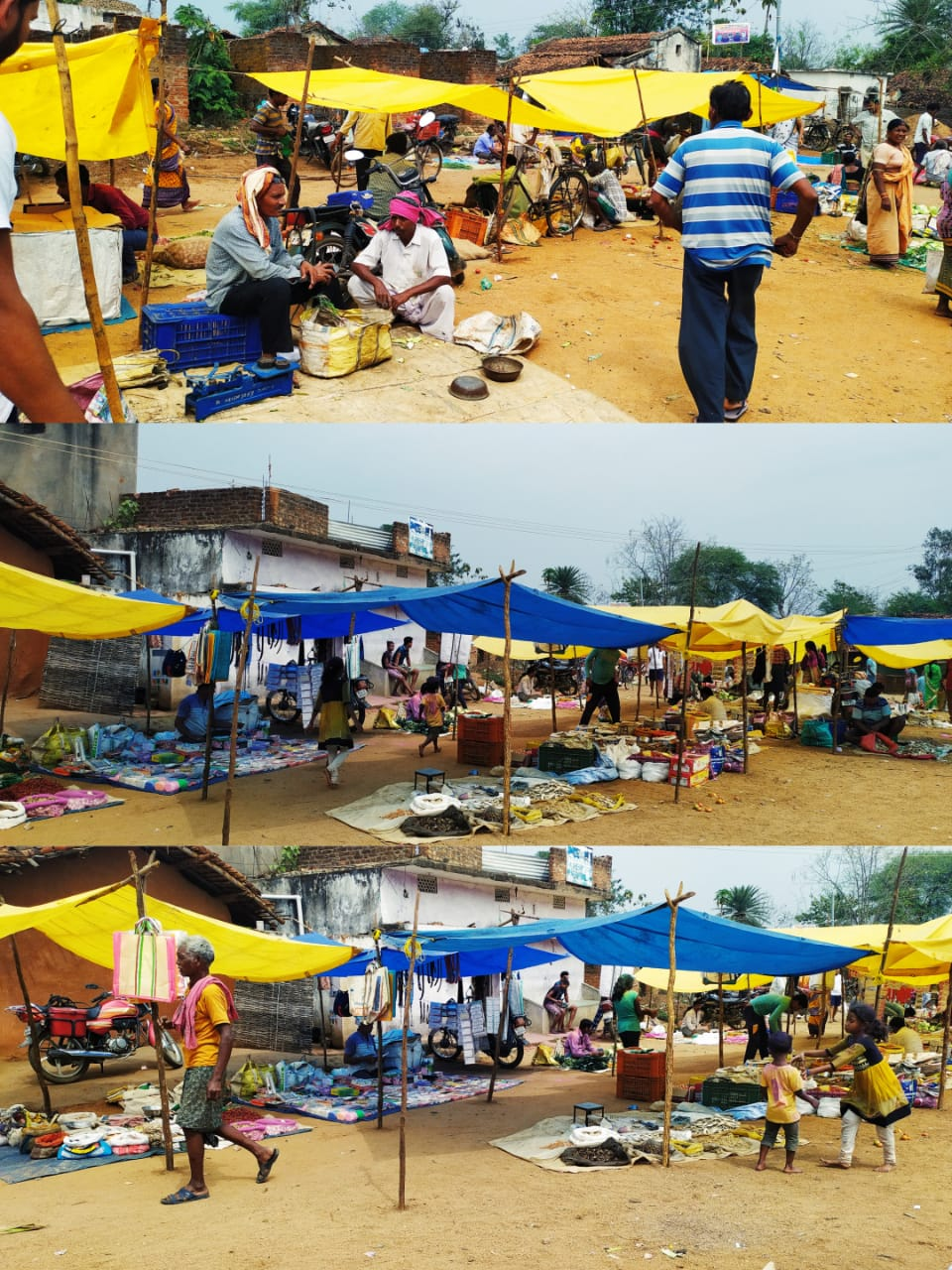 Weekly Market (bazaar) BARGAON